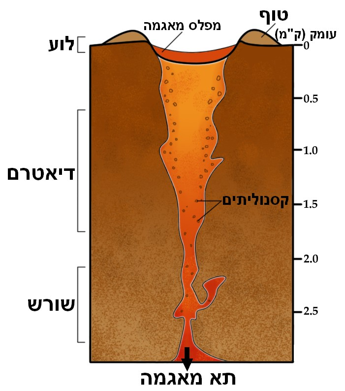 Volcanic pipe, Hebrew